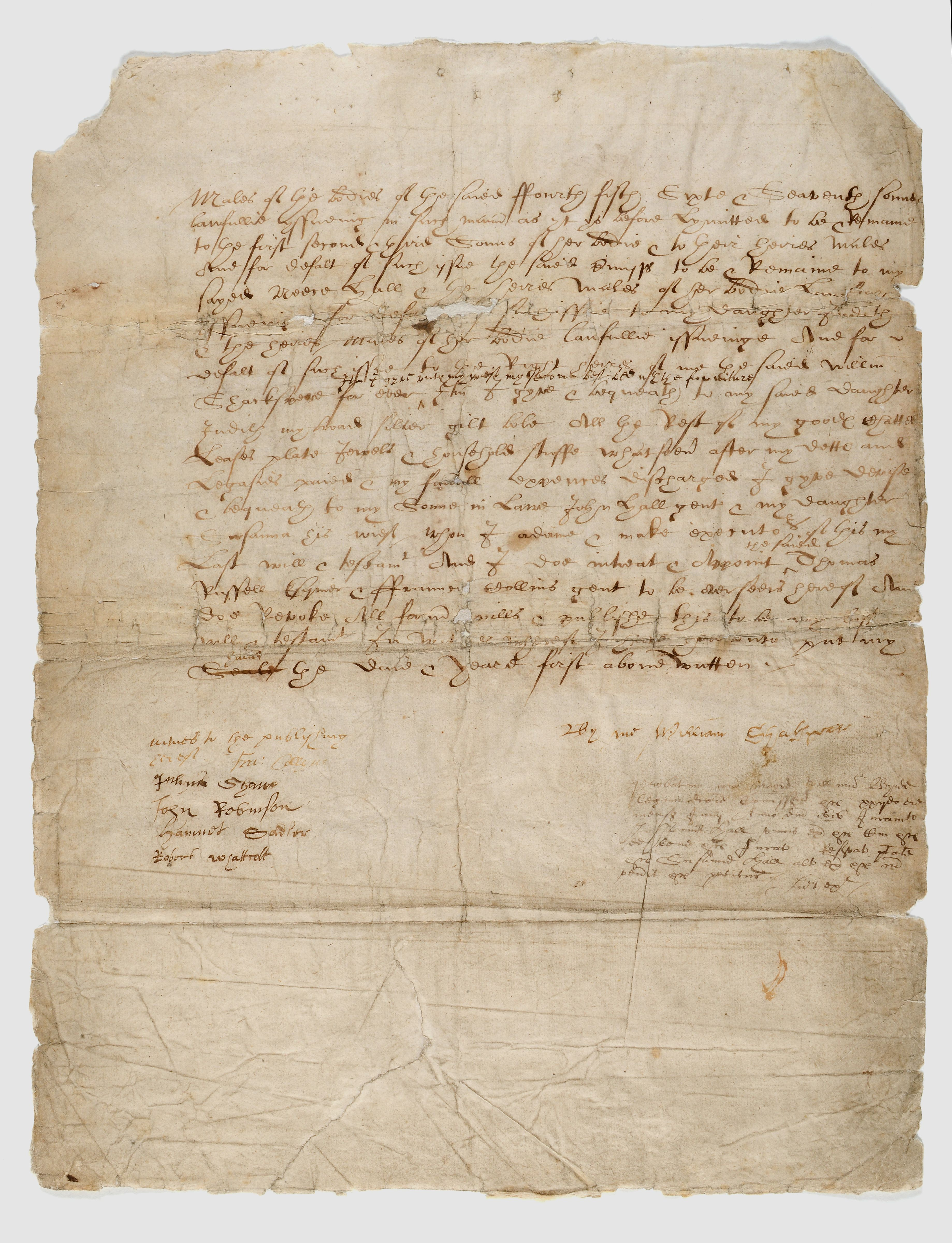 Last page of the handwritten 1616 will of William Shakespeare. Only "By me William Shakespeare" was written by Shakespeare.